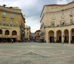 Dante23